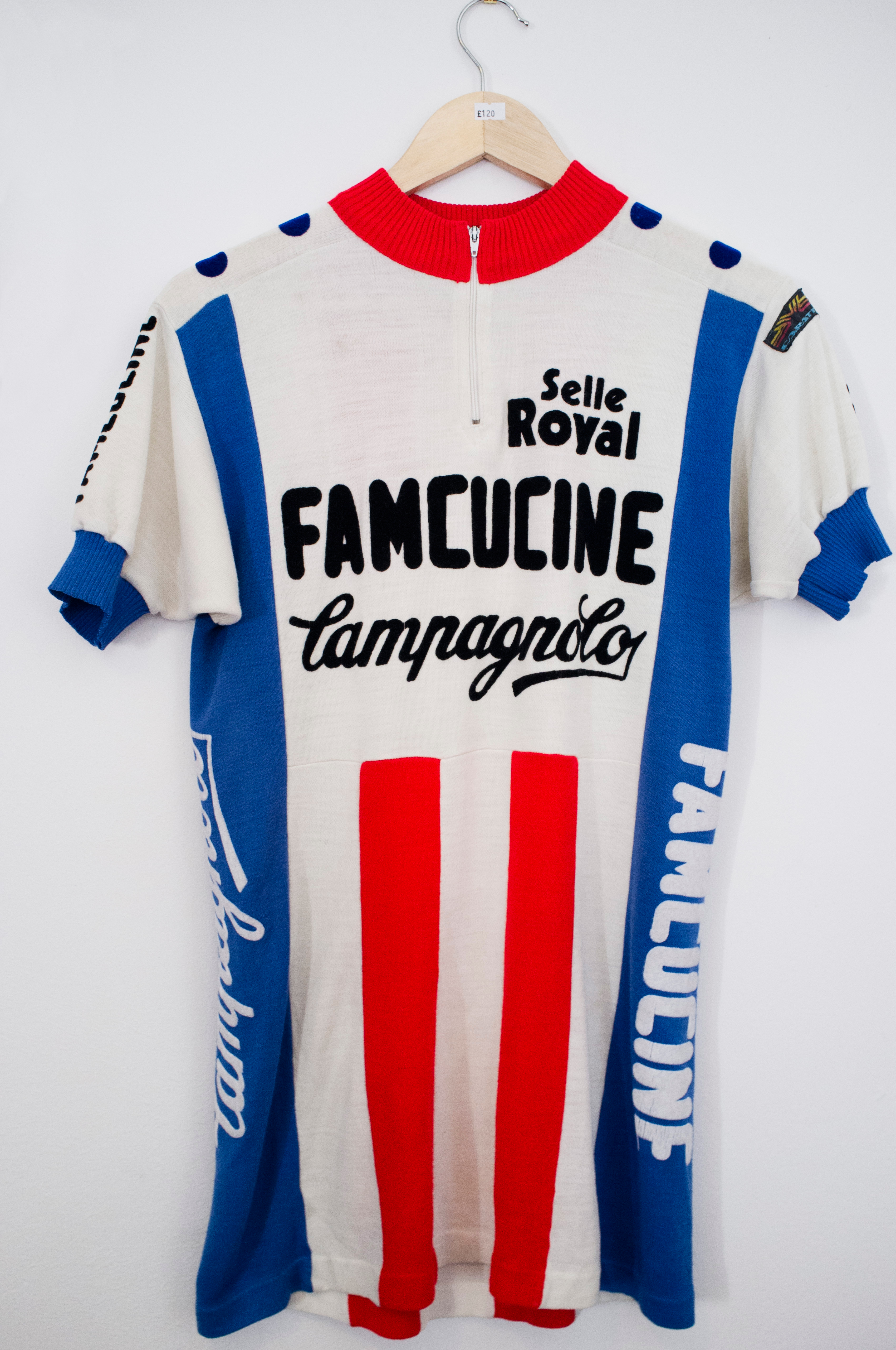 Vintage cycling jersey